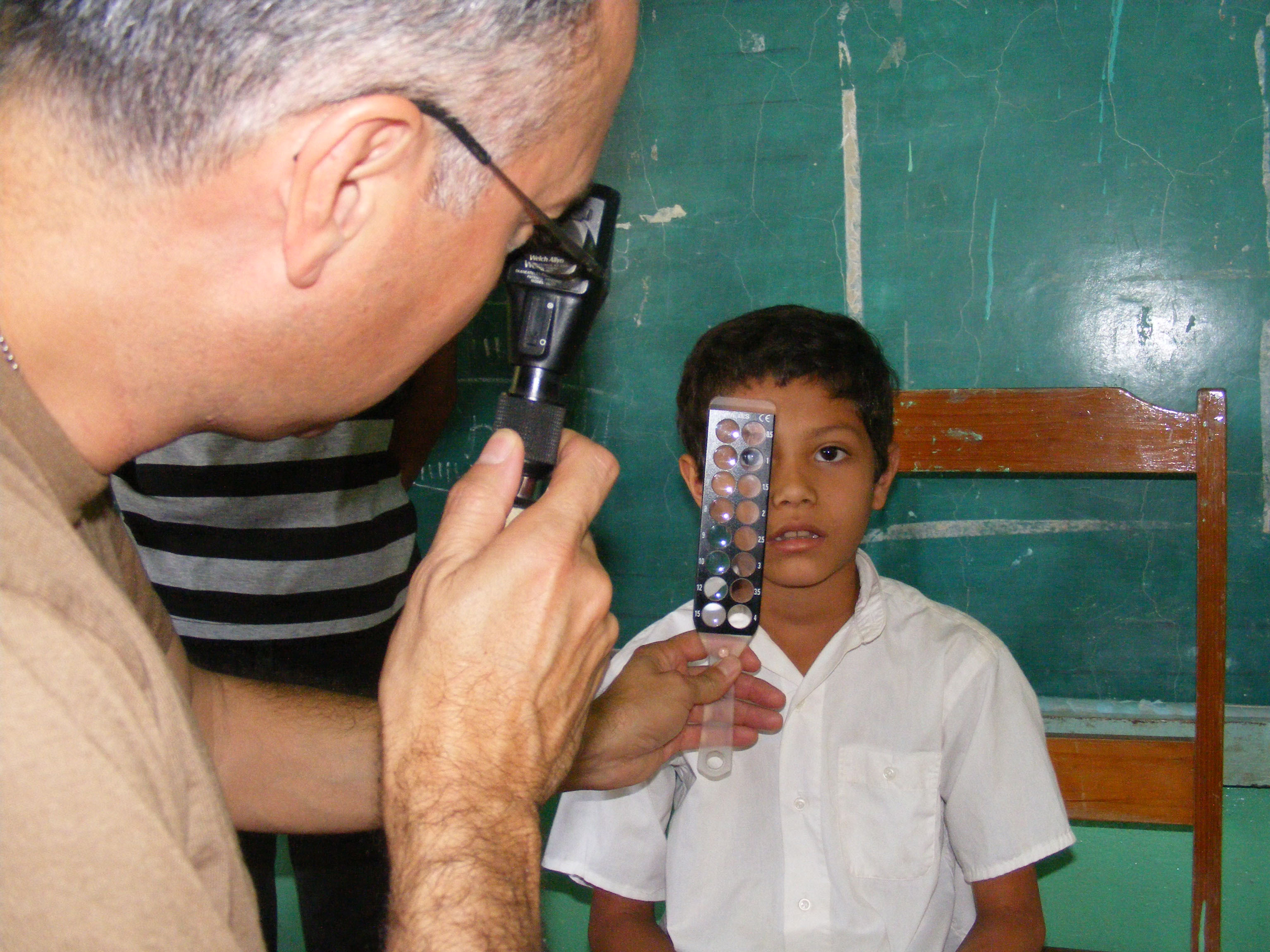 CAPIRO, Honduras (April 2, 2009) Navy optometrist Cmdr. Louis Perez uses a retina scope and lens rack to check the eyes of 9-year old Sergio Colochos during the Beyond the Horizon humanitarian assistance exercise in Honduras. Reserve component doctors, nurses, and hospital corpsmen from Operational Hospital Support Unit, Dallas are providing medical services to six different Honduran villages during the two weeks exercise. (U.S. Navy photo by Mass Communication Specialist 2nd Class Ron Kuzlik/Released)